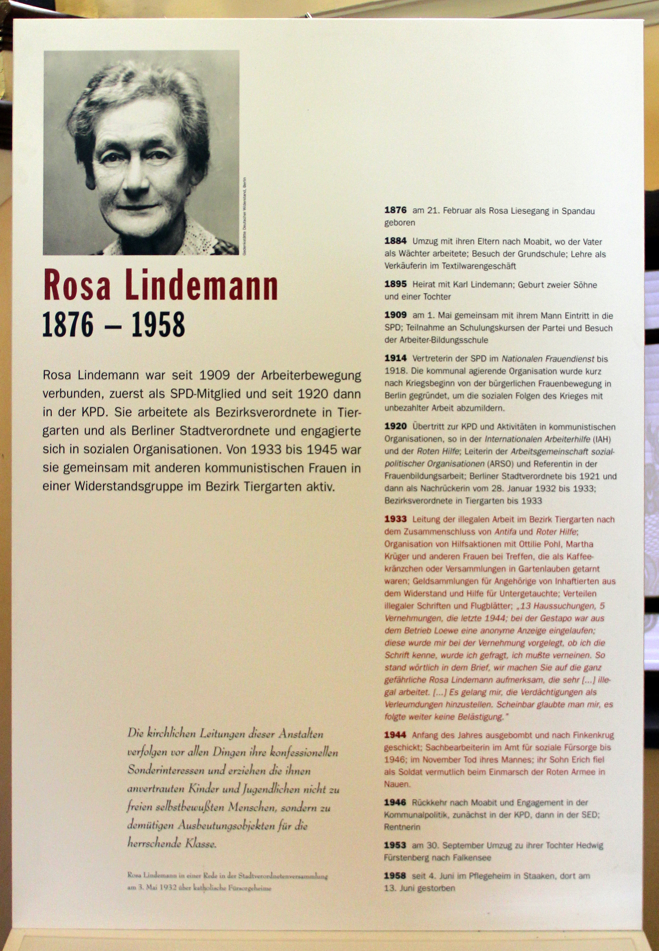 Memorial plaque, Rosa Lindemann, Möllendorffstraße 6, Berlin-Lichtenberg, Germany